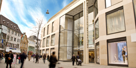 Main entrance of L+T Lengermann + Trieschmann GmbH + Co. KG in the spring of 2011 in Osnabrück, Lower Saxony, Germany